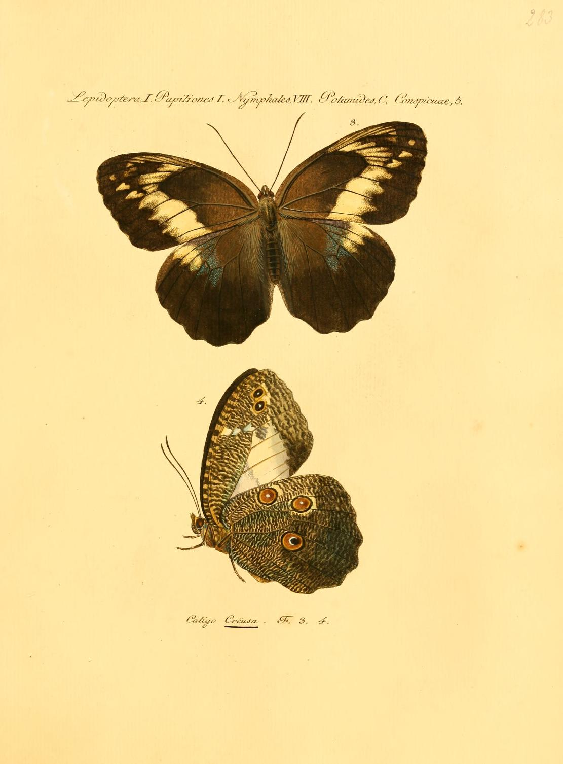 Jacob Hübner Sammlung exotischer Schmetterlinge Vol. 2 ([1819] - [1827] Plate 68 Caligo creusa Hübner, [1821] synonym for Dasyophthalma creusa (Hübner, [1821])